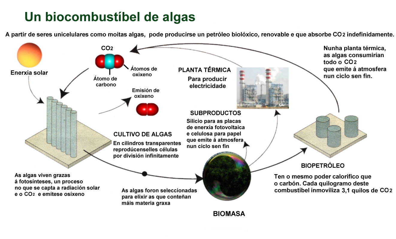 Graphic for the production of a biocarburant to leave d' marine algas